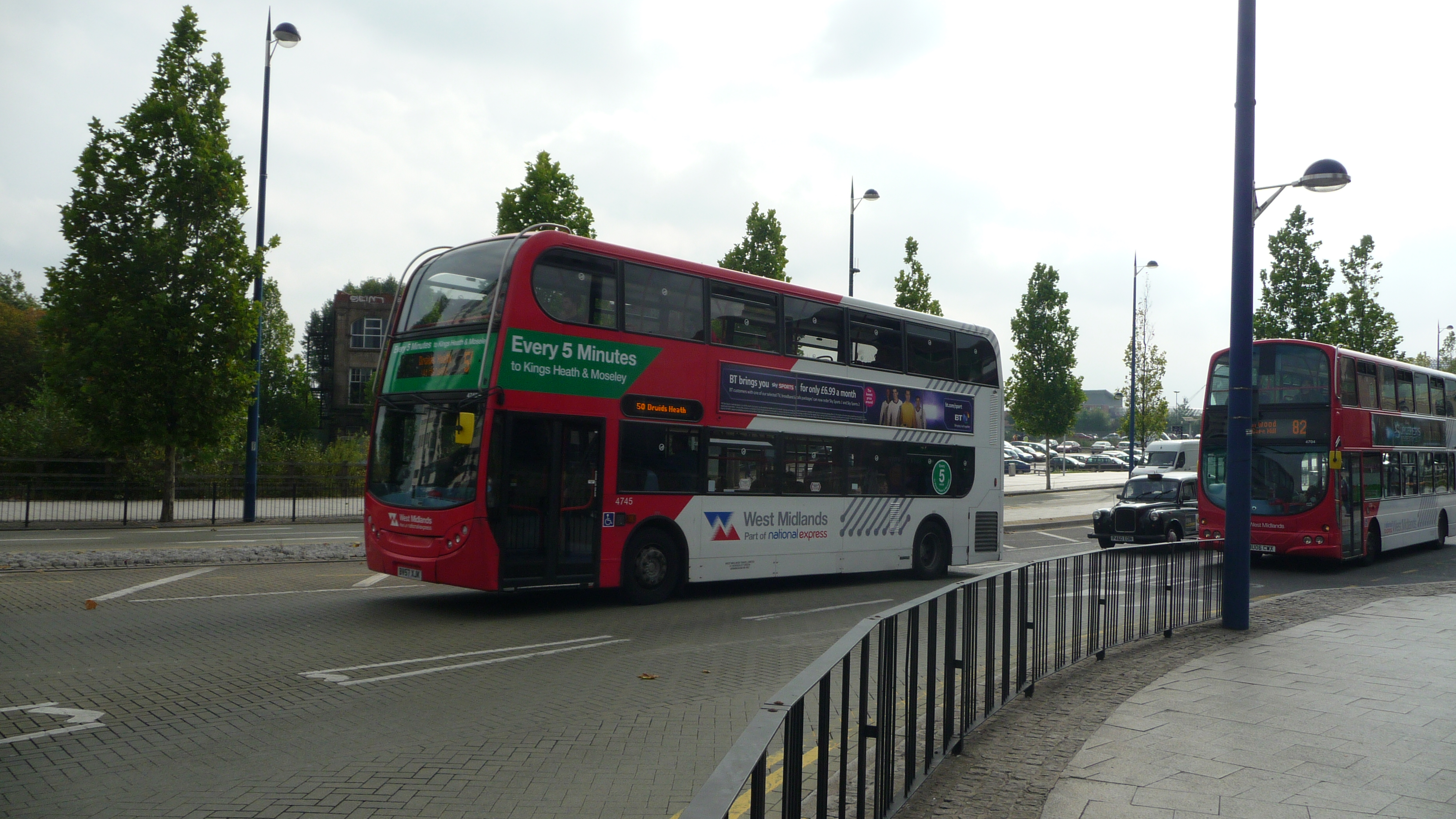 National Express West Midlands 4745 (BV57 XJK), an Alexander Dennis Enviro400, in Moor Street Queensway, Birmingham city centre, on route 50.